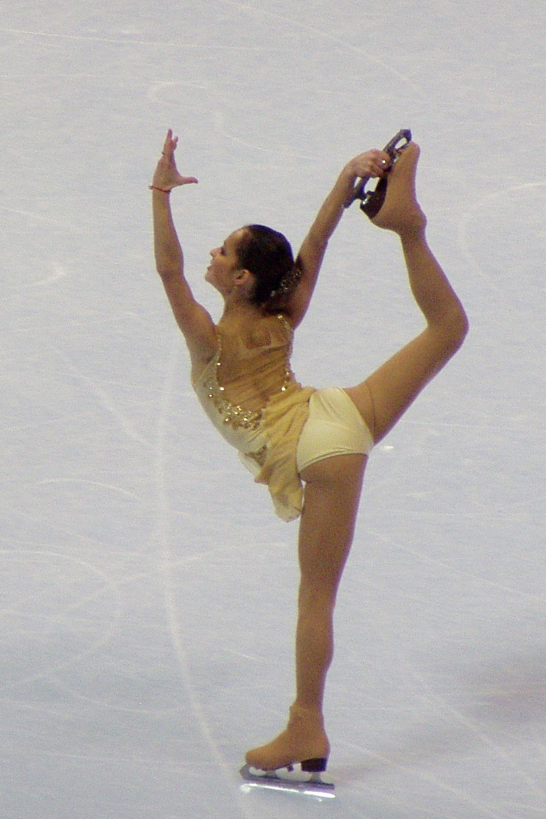 Sasha Cohen performs her long program at the 2006 U.S. Figure Skating Championships. She won the gold medal.